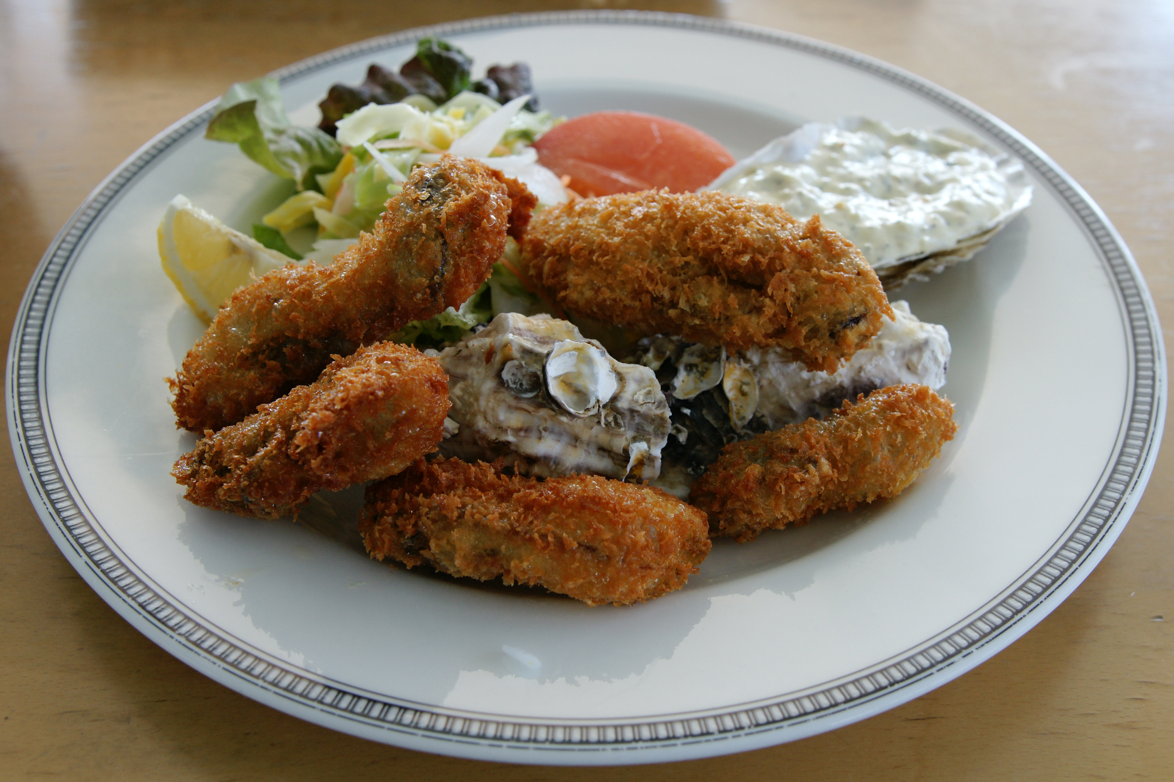 Deep-fried oysters, at Ushimado, Japan